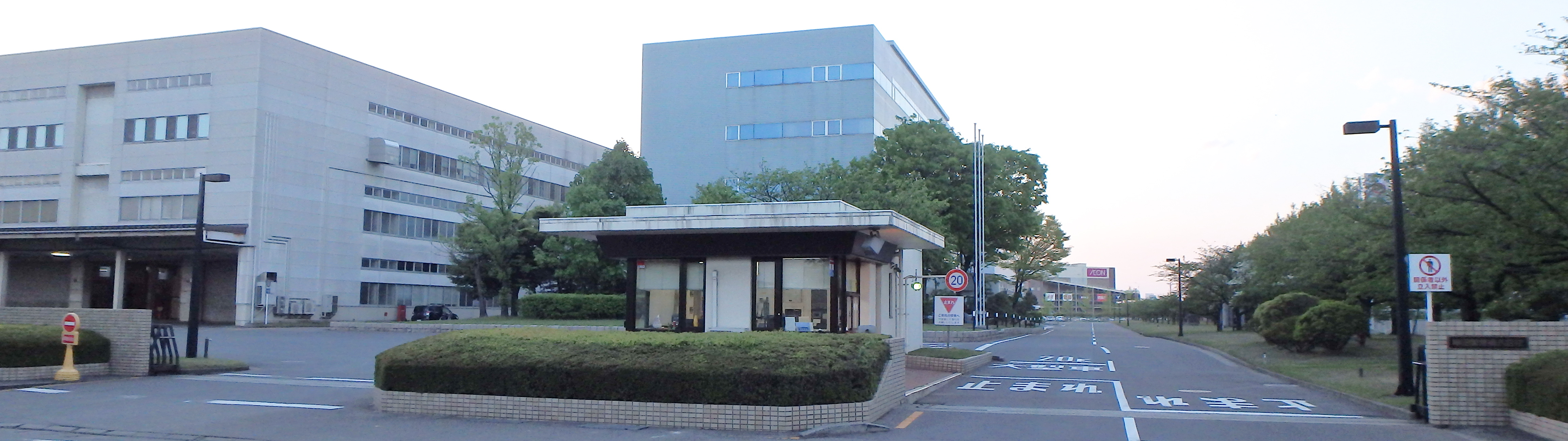 Headquarters of Kameda Seika Company, Limited,Niigata prefecture,Japan